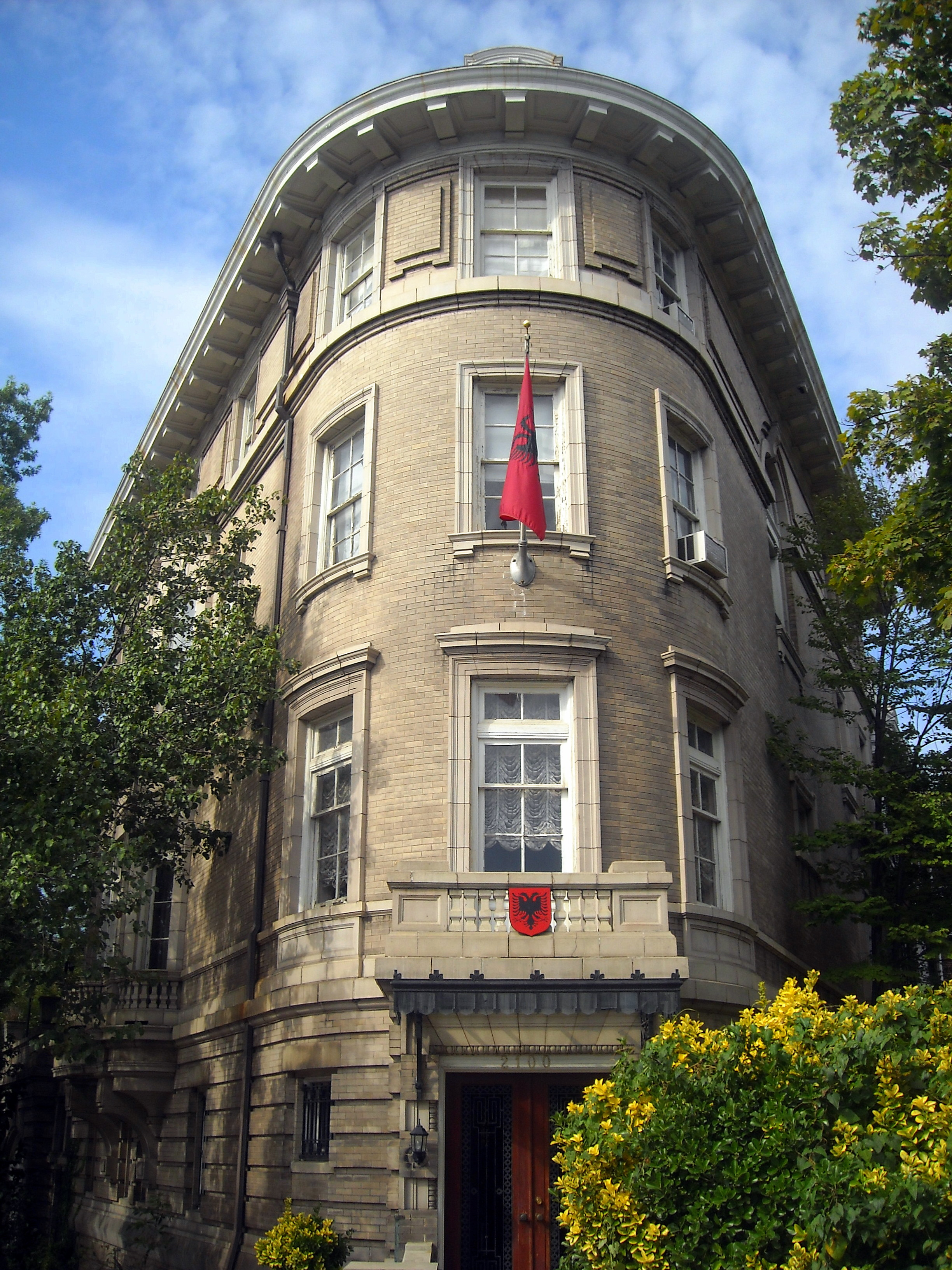 Embassy of Albania at 2100 S Street, NW in the Kalorama neighborhood of Washington The building is a contributing property to the Sheridan-Kalorama Historic District.